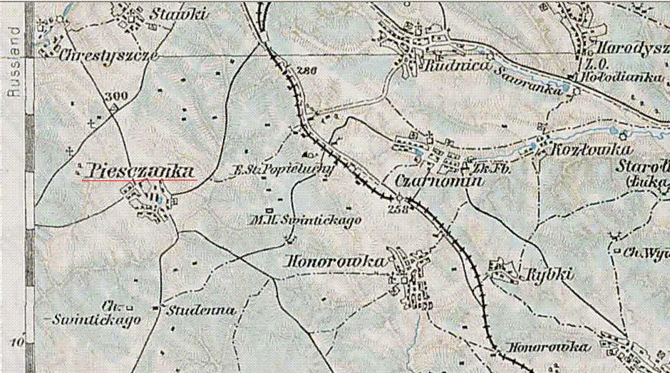 The area around Piesczanka on a military Austrian map